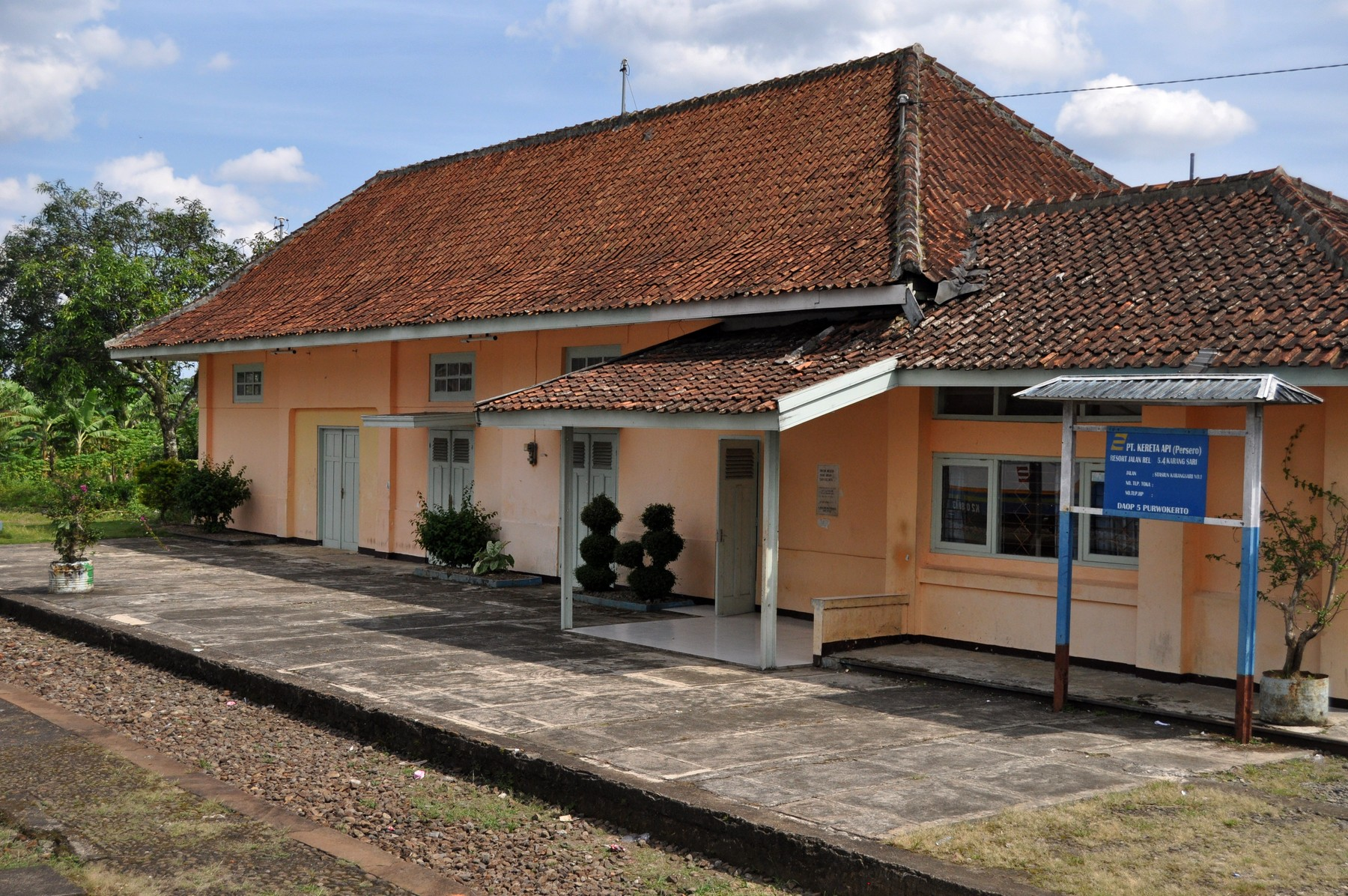 (Ex) Legok Stationd, now retired.